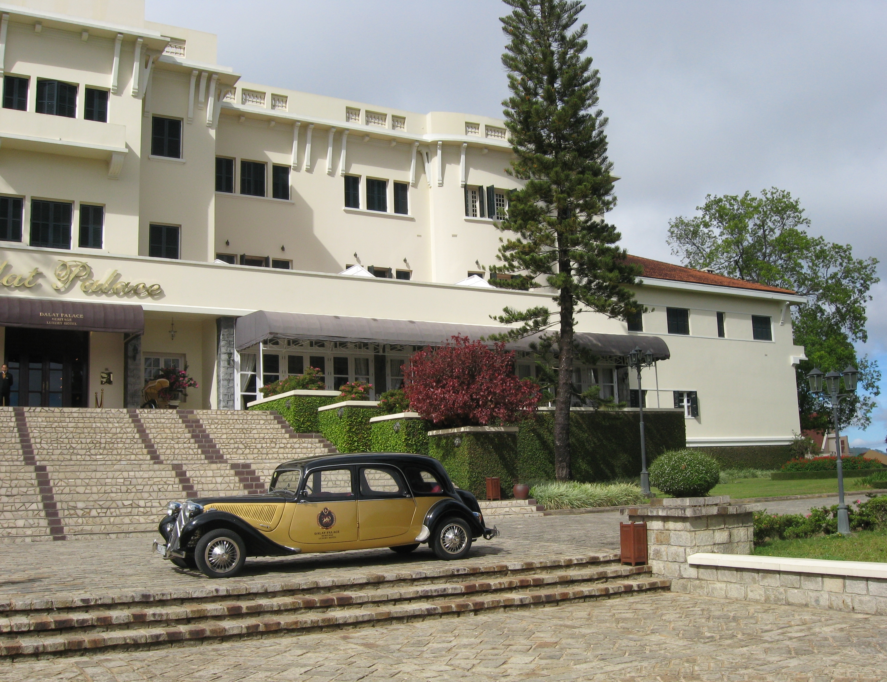 Dalat Palace Hotel